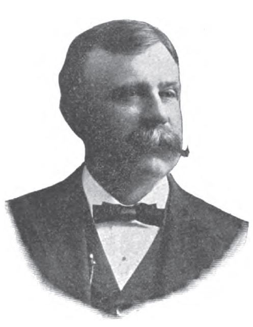 an Ohio politician named William W. Skiles